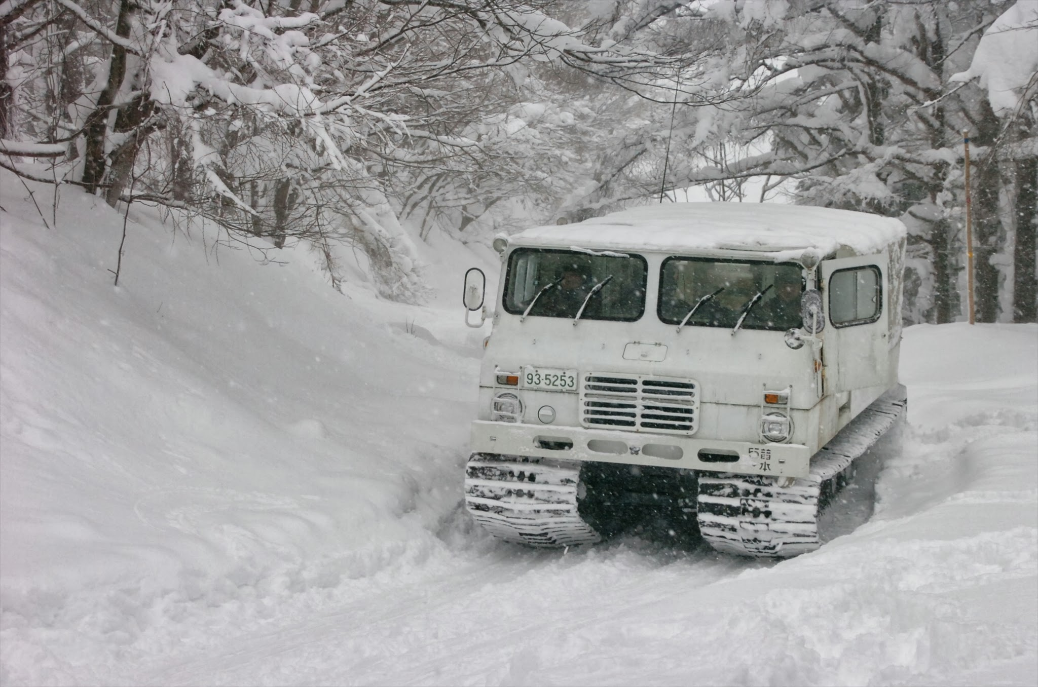 Title 25.01.29 ５ｉ・八甲田演習（雪上車が経路を圧雪）.JPG Album 装備 ７８式雪上車（八甲田演習・第５普通科連隊）